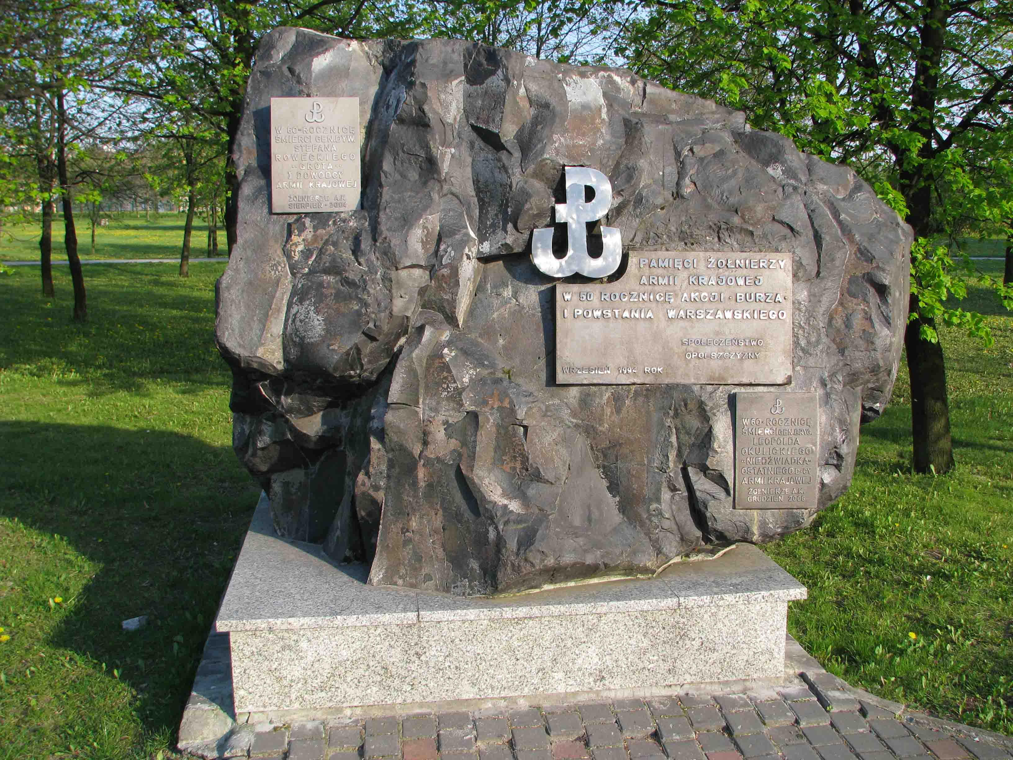 Polish Underground State Monument in Home Army Quarter (Osiedle im. Armii Krajowej) in Opole - Poland